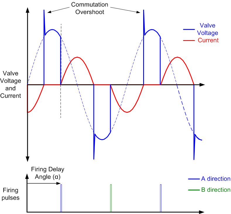 Voltage and current waveforms for a Thyristor Valve for a Thyristor Controlled Reactor (TCR)